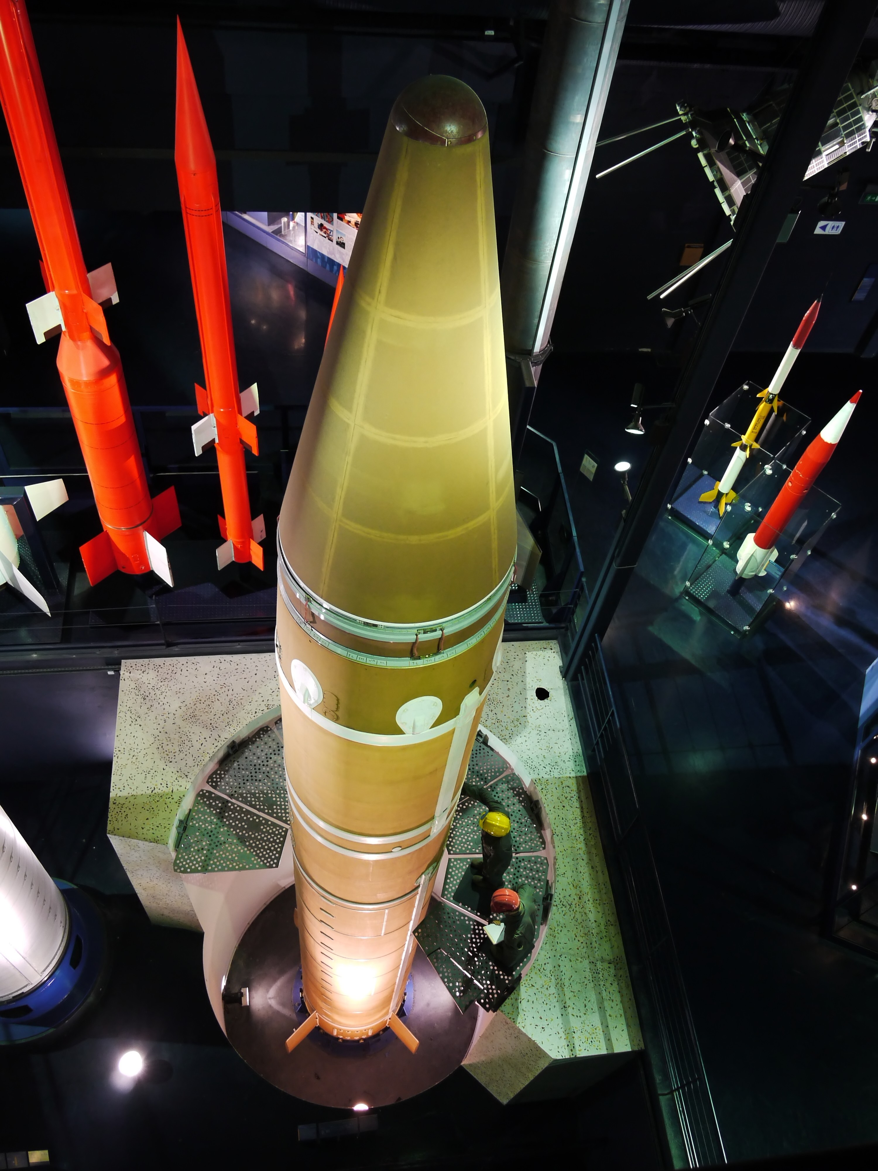 S3 Missile, Museum of Air and Space Paris, Le Bourget (France)